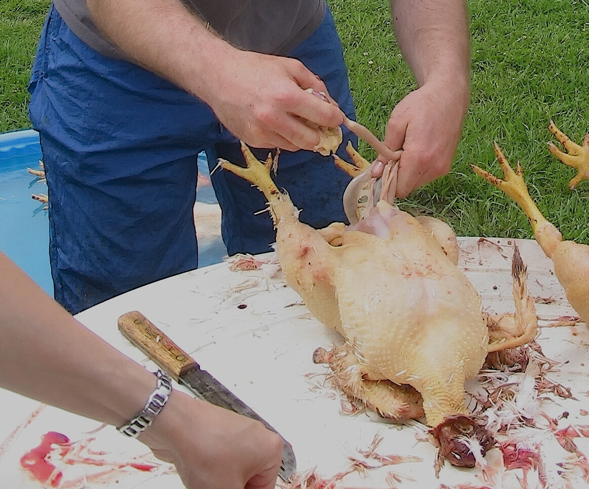 Gutting chickens